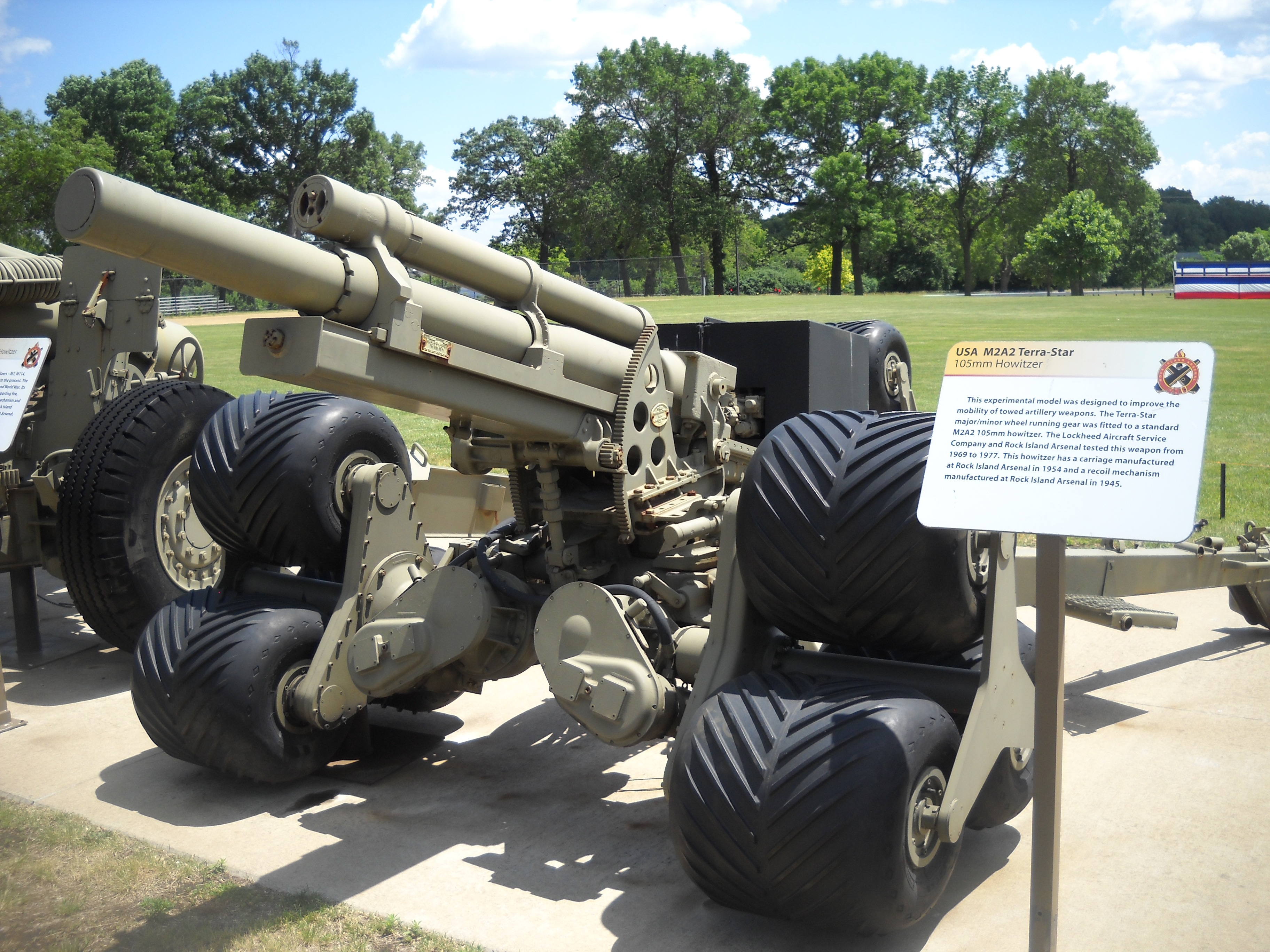 An M2A2 105mm howitzer modified with an auxiliary propulsion system and tri-star wheels, viewed from the front quarter